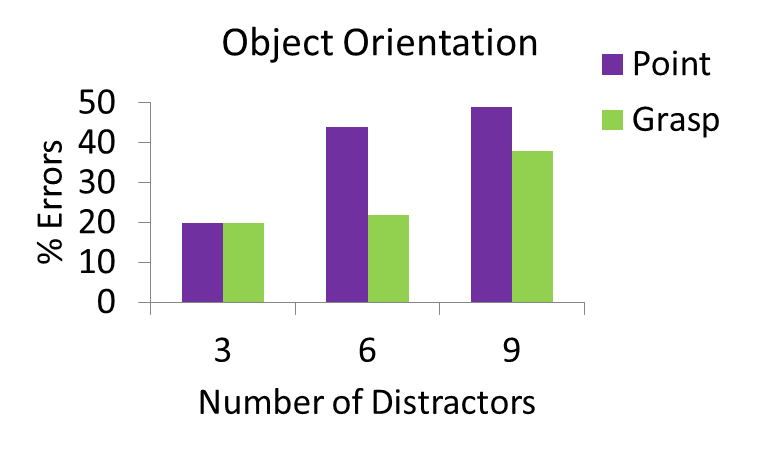 In Bekkering and Neggers (2002) experiment, participants made significantly less object orientation errors in the grasping compared to the pointing condition.